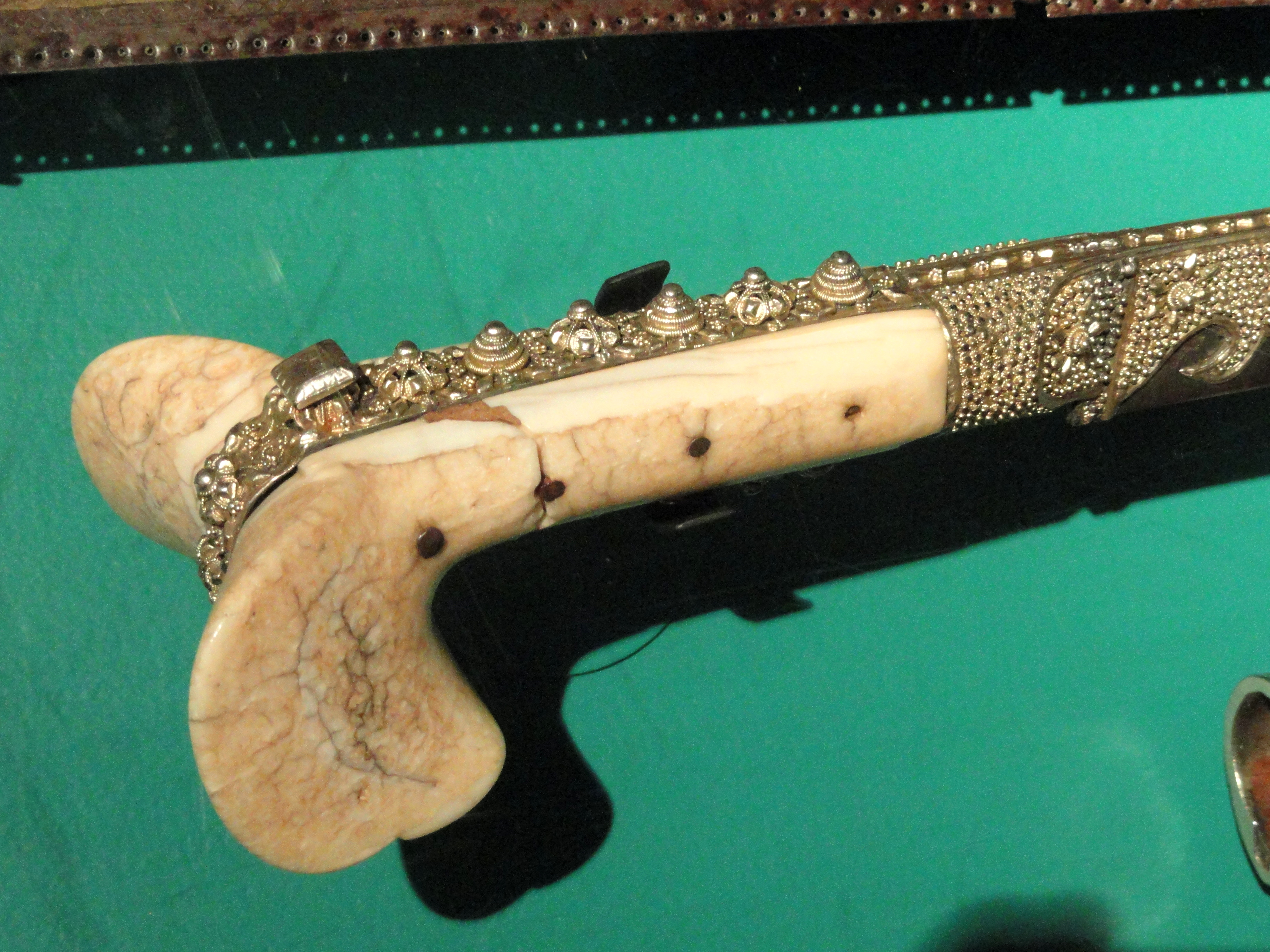 Exhibit in the Higgins Armory Museum, 100 Barber Avenue, Worcester, Massachusetts, USA. The museum permitted photography without any restriction, both in writing and when I asked verbally.